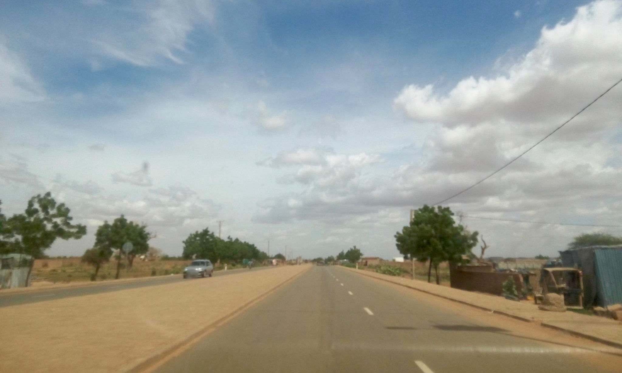 Main road in Kossèye, Niamey I.